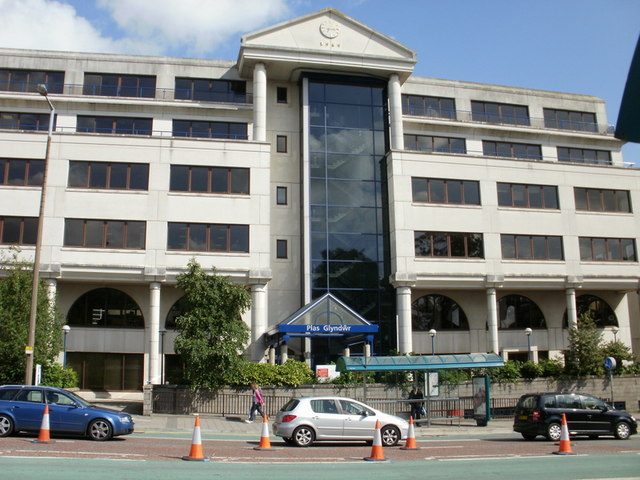 Plas Glyndwr,Kingsway,Cardiff Office building occupied by the Welsh Assembly Government and Welsh Development Agency.